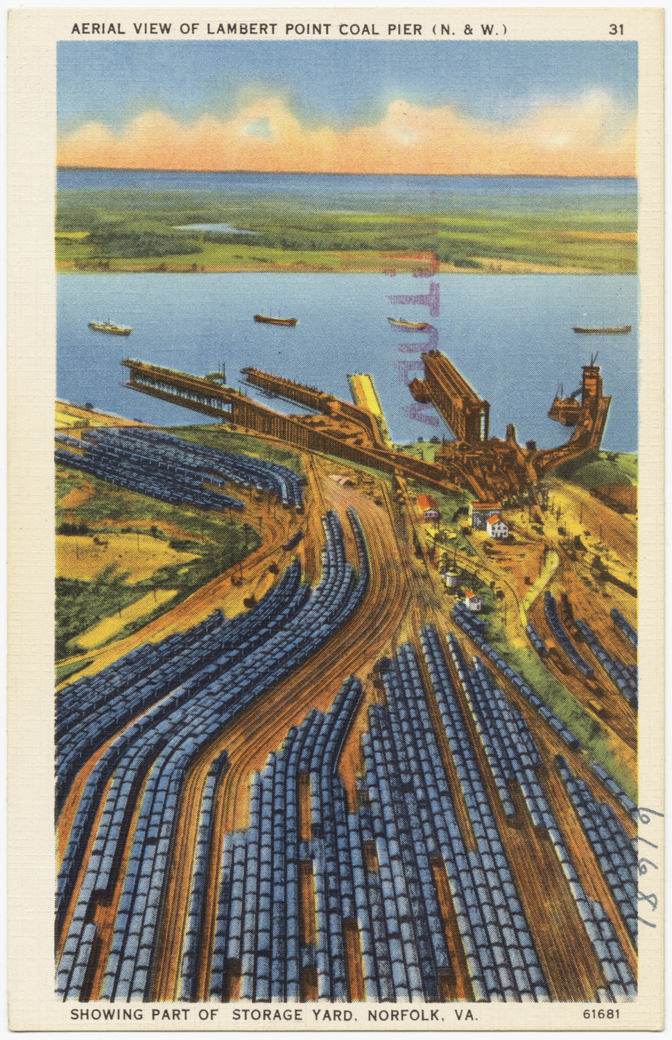 File name: 06_10_021285 Title: Aerial view of Lambert Point Coal Pier (N. & W.) showing part of storage yard, Norfolk, VA. Created/Published: Pub. by Acme Photo Co., Norfolk, VA. Tichnor Quality Views, Reg. U. S. Pat. Off. Made Only by Tichnor Bros., Inc., Boston, Mass. Date issued: 1930 - 1945 (approximate) Physical description: 1 print (postcard) : linen texture, color ; 5 1/2 x 3 1/2 in. Genre: Postcards Subject: Harbors; Railroad stations Notes: Title from item. Collection: The Tichnor Brothers Collection Location: Boston Public Library, Print Department Rights: No known restrictions